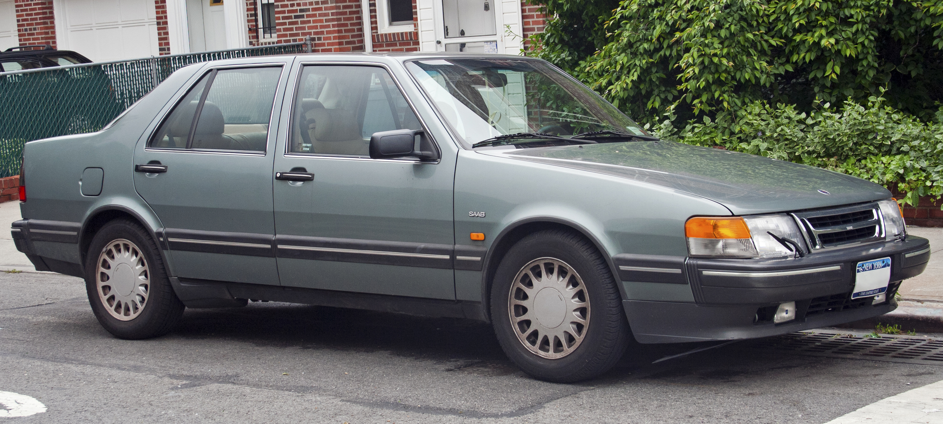 Late 1990 Saab 9000 CD, one of the first naturally aspirated CDs to be sold in the US. It has the 150 hp B234I fuel injected inline-four, coupled to a four-speed automatic